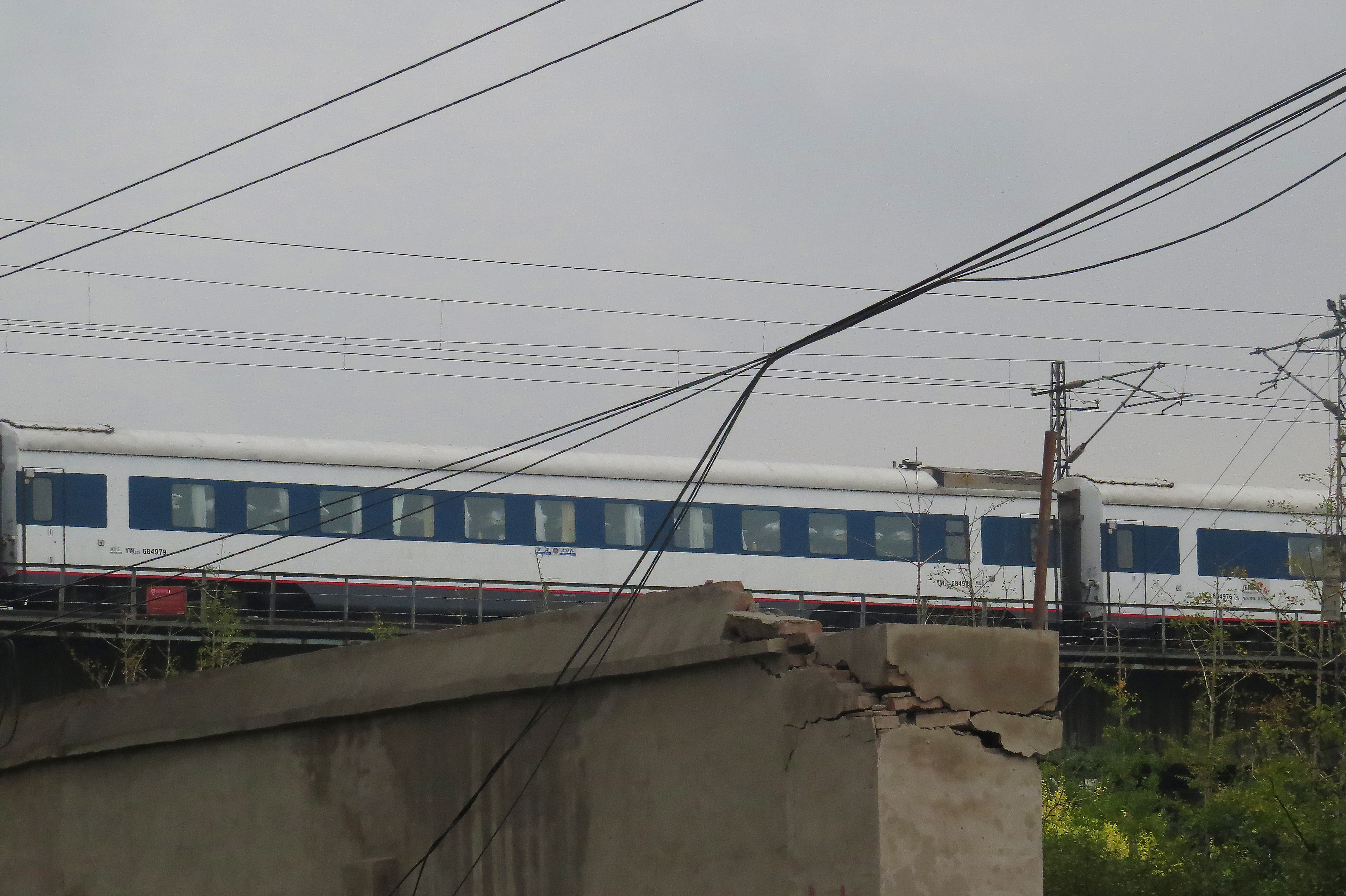 Z78 from Guiyang as seen near Shijingshan South Railway Station.